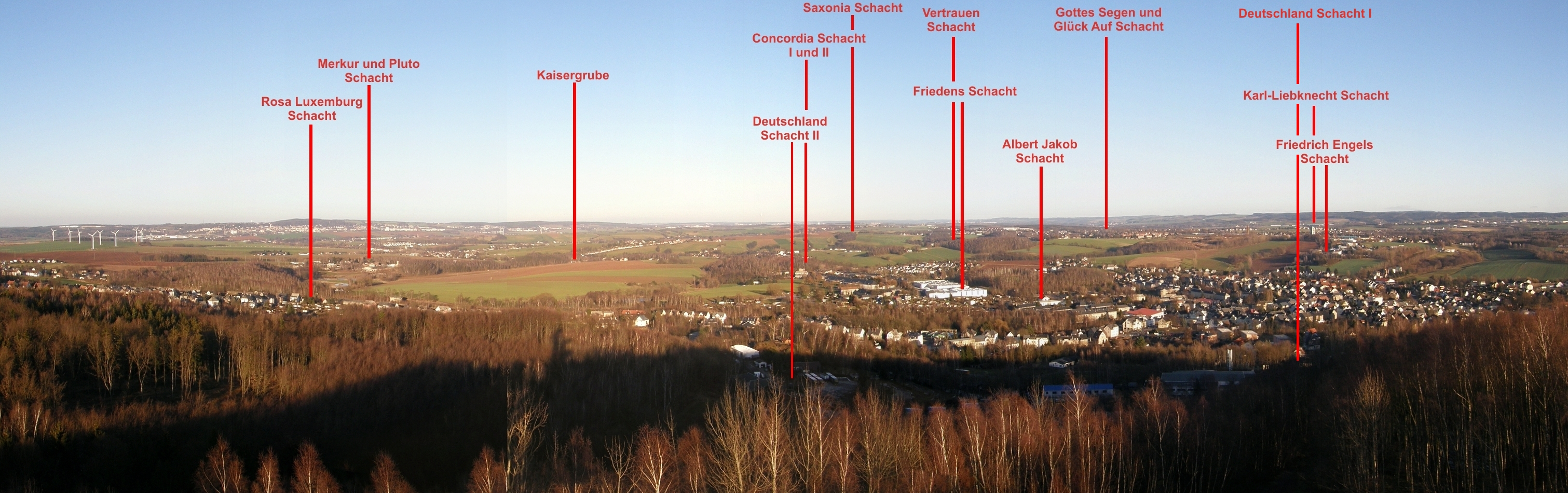 Panorama of the Oelsnitz-Lugau mining area with the location of important mines